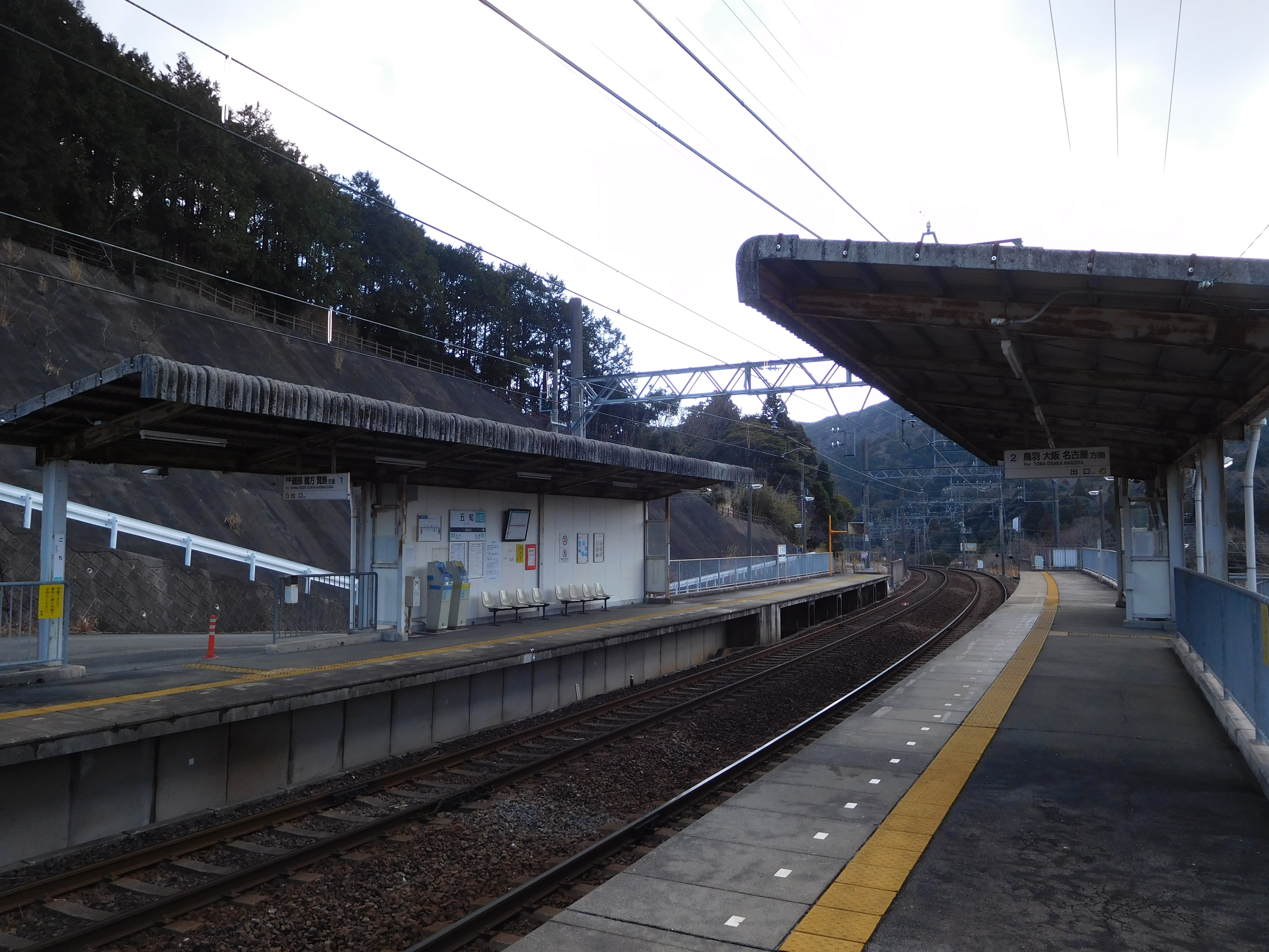 This is Kintetsu Gochi station in Shima, Mie, Japan.